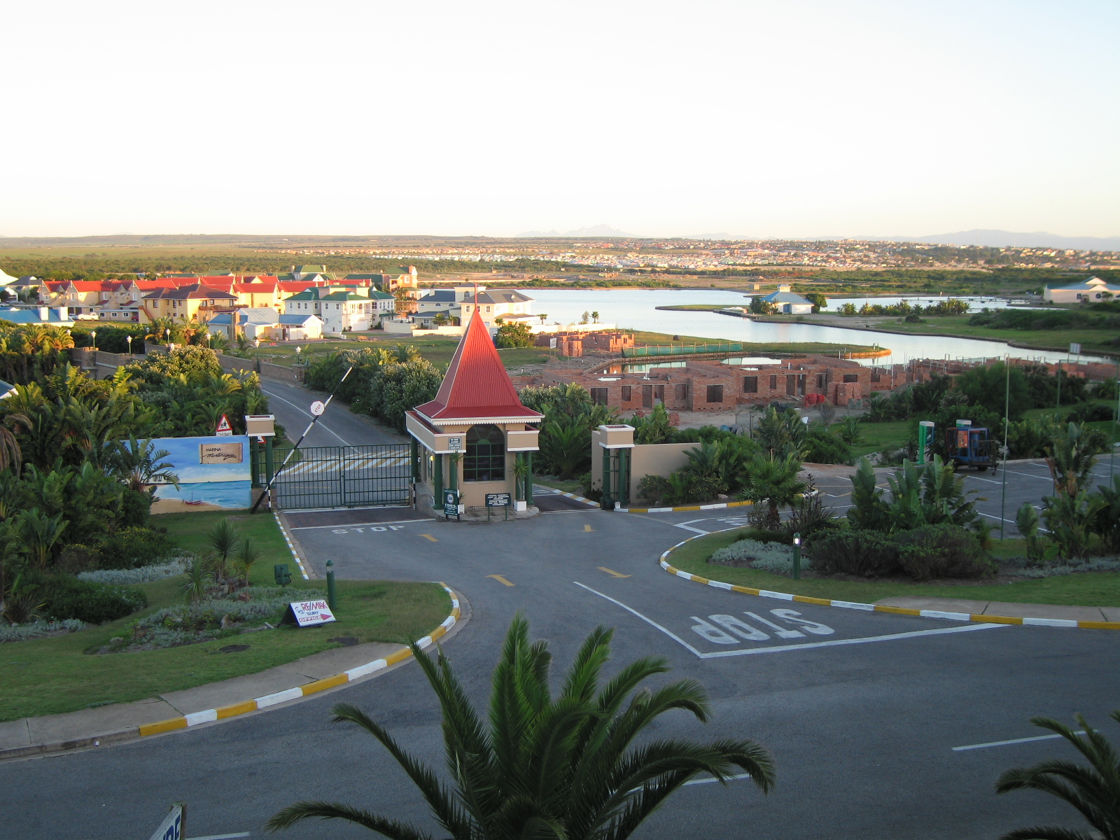 Aston Bay